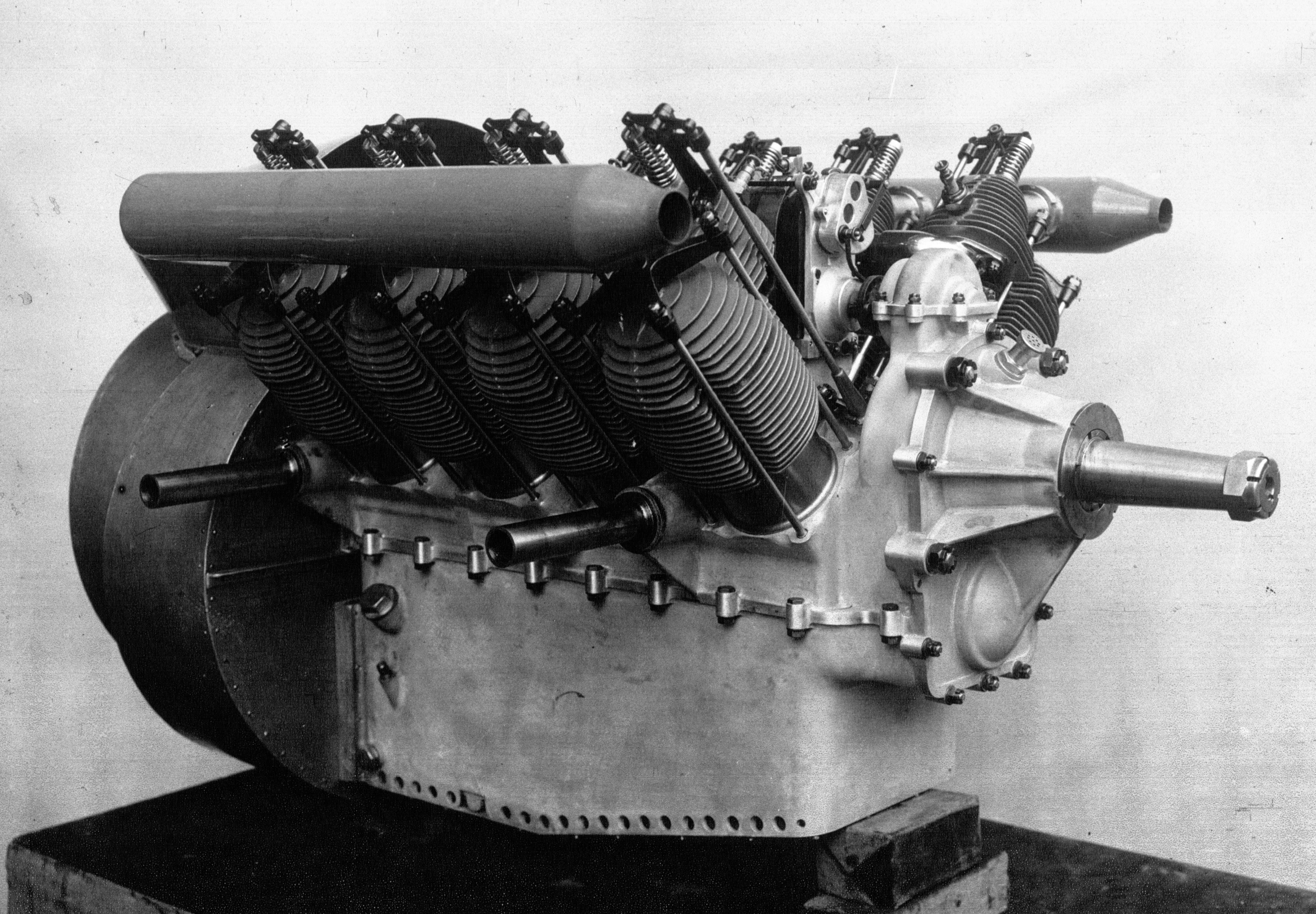 De Dion 80 hp aircraft engine displayed at the Salon aéronautique de 1912